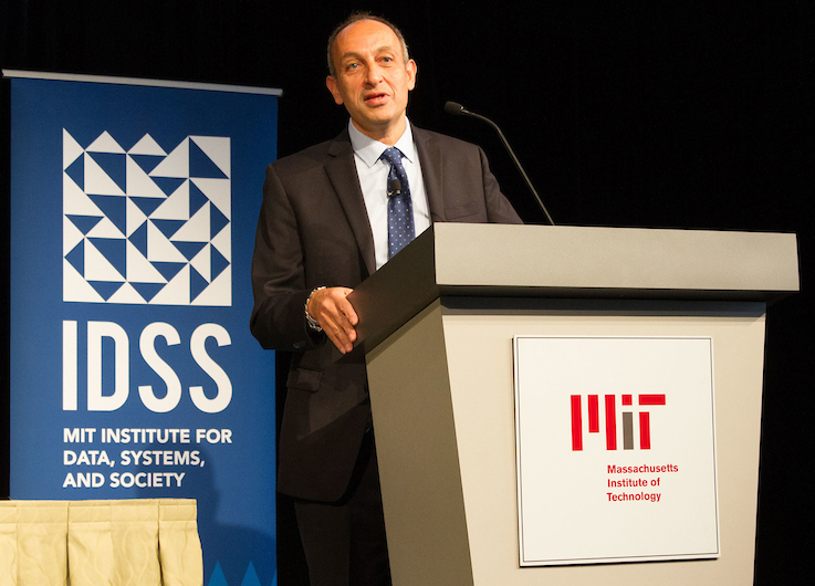 Professor Munther A. Dahleh, Director of the Institute for Data, Systems, and Society (IDSS) with opening remarks at the IDSS Launch, Massachusetts Institute of Technology (MIT), Cambridge, MA.